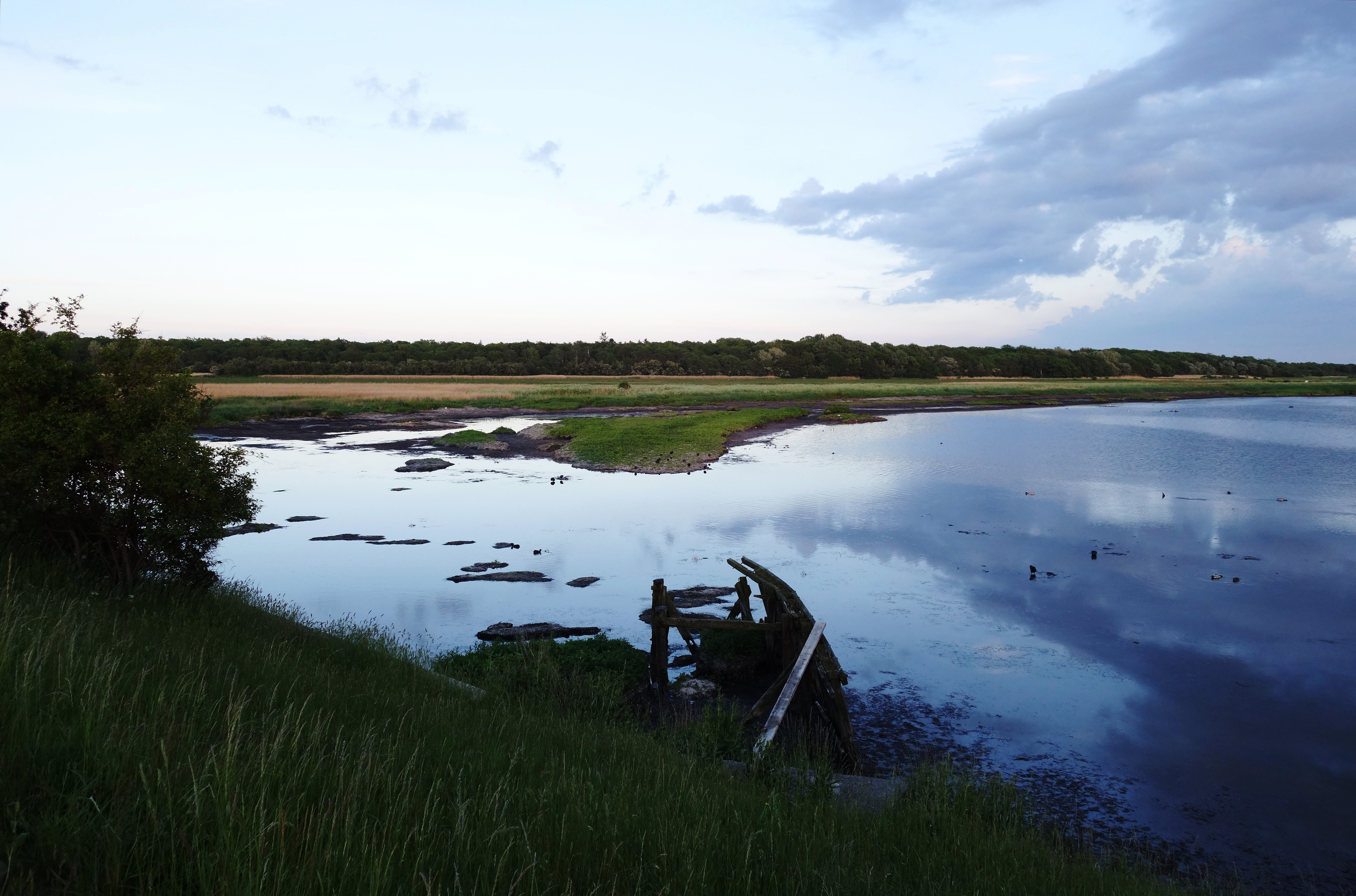 View from the dam